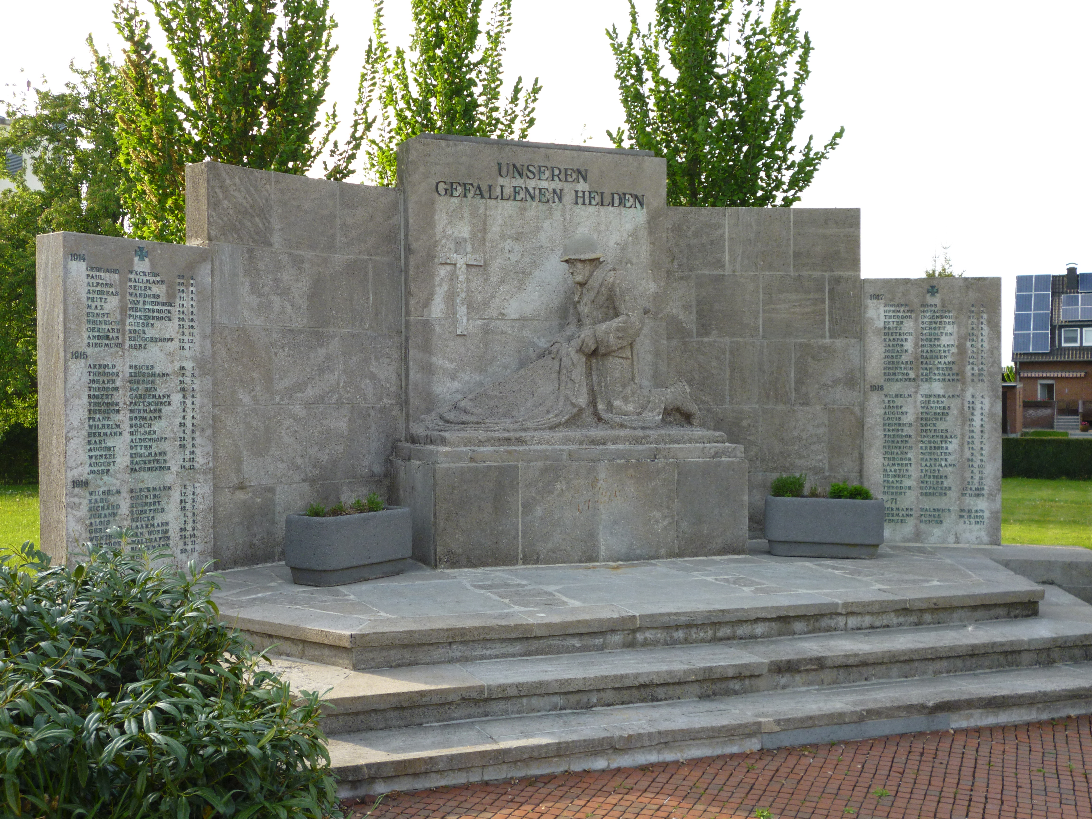 War Memorial in Büderich